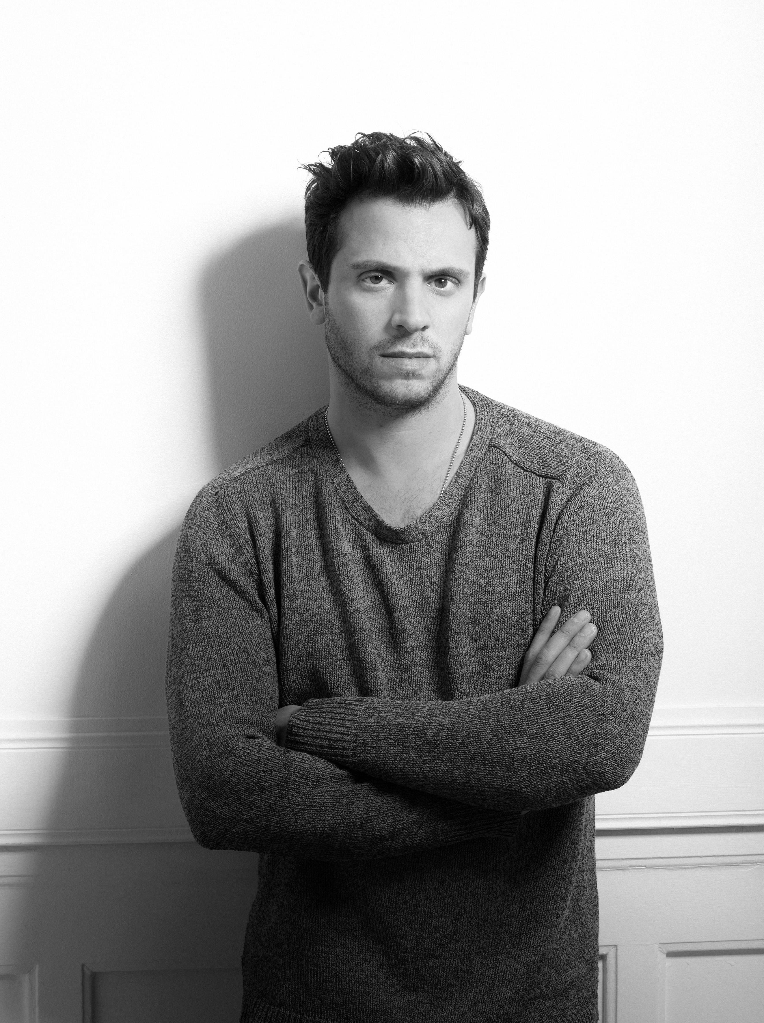 Photography of Joel Spira